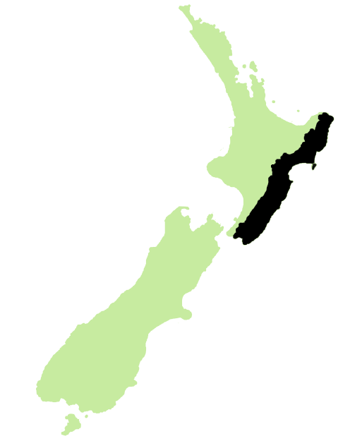 Map showing the Ikaroa Rāwhiti electorate based on boundaries used for the 2008 and 2011 general elections